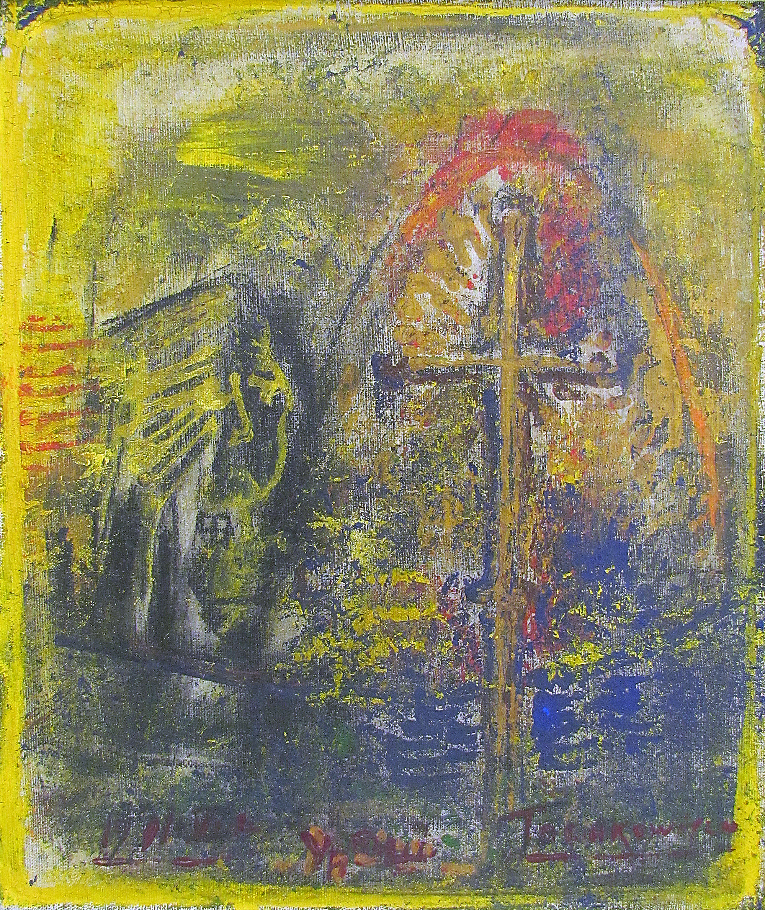 Uros Toskovic, no name 1990